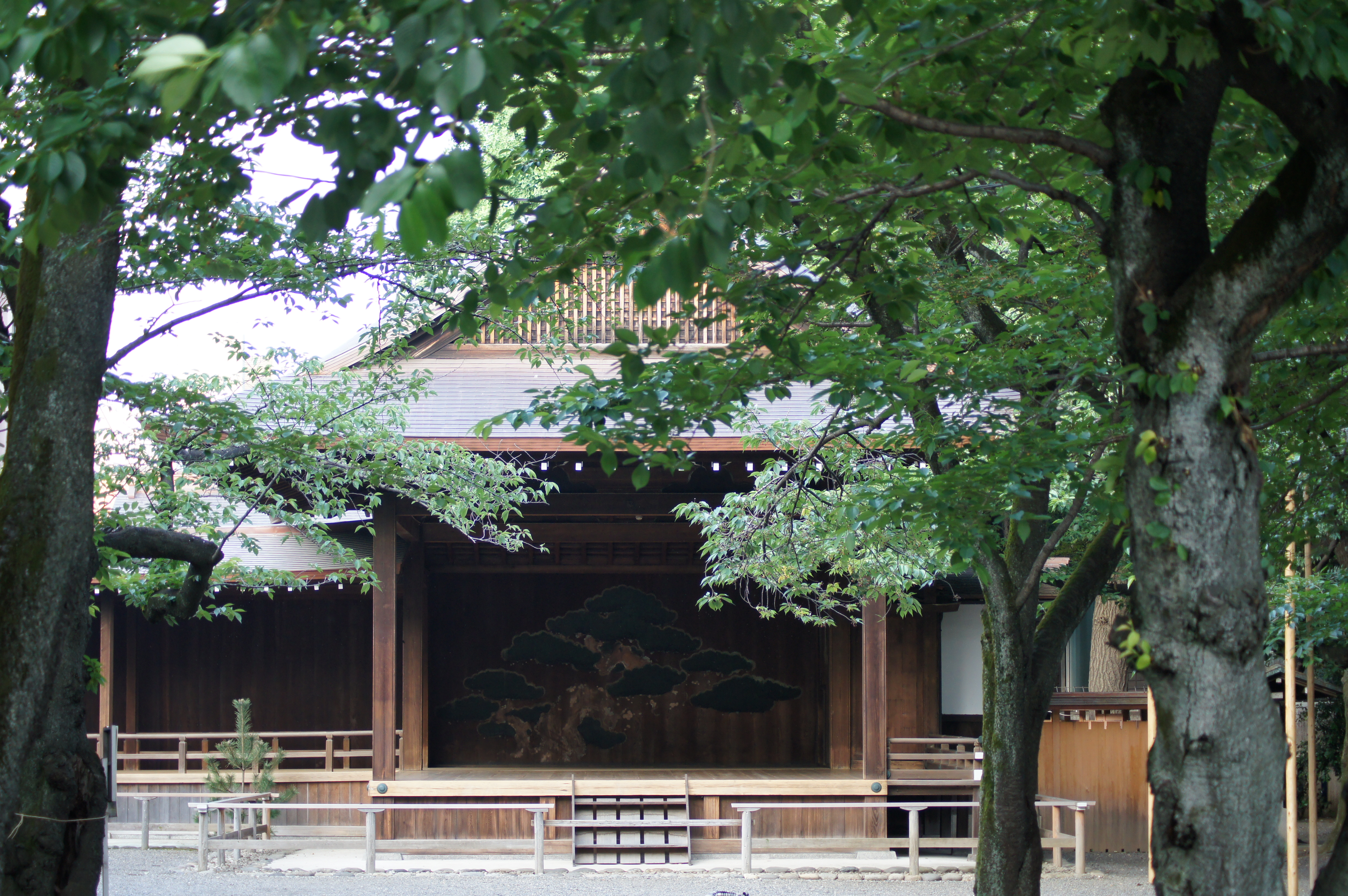 Yasukuni Shrine Nogakudo